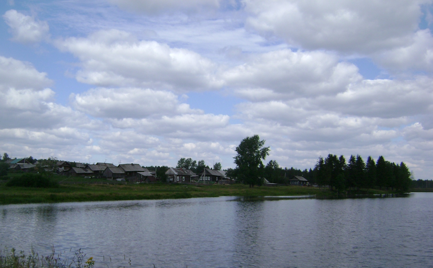 Pond in Krasnogorskoye village, Udmurtia